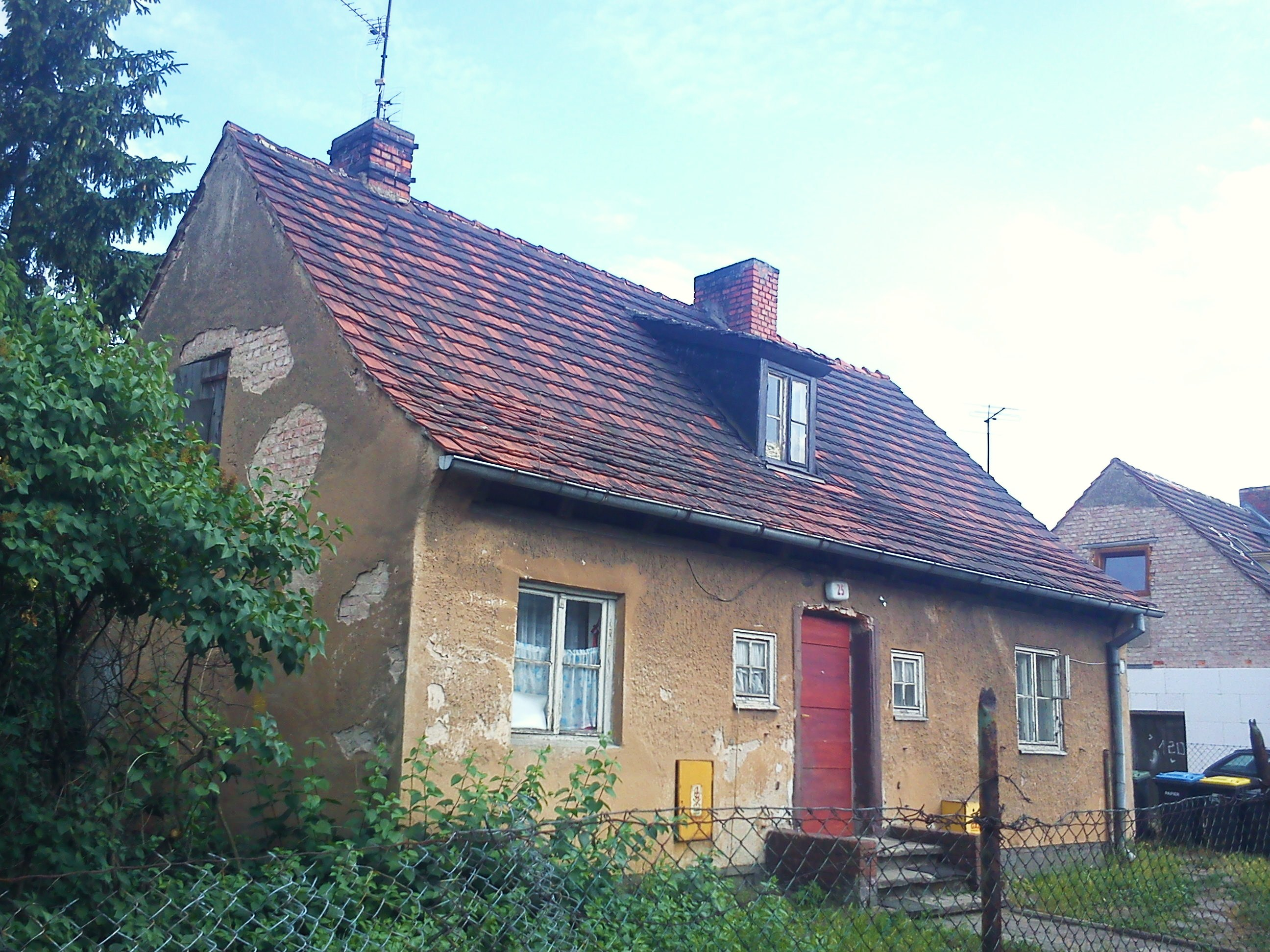 Old Houses in Goleszowska Street, Poznan for workers Deutsche Waffen- und Munitionsfabrik (HCP), 1940.